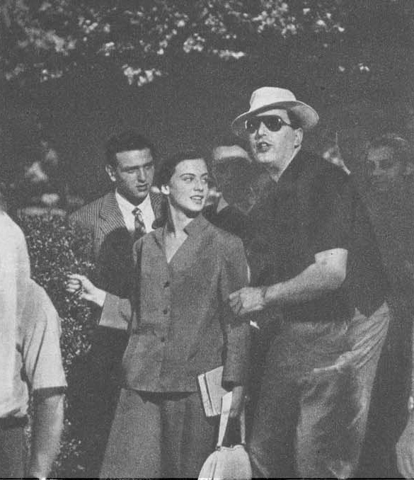 Italian actress Anna Maria Ferrero and director Gianni Franciolini in the set of the Italian film Villa Borghese